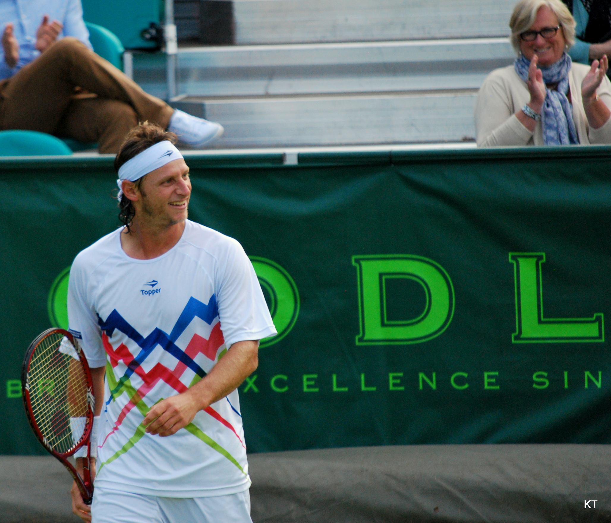 The Boodles, Stoke Park 2012.